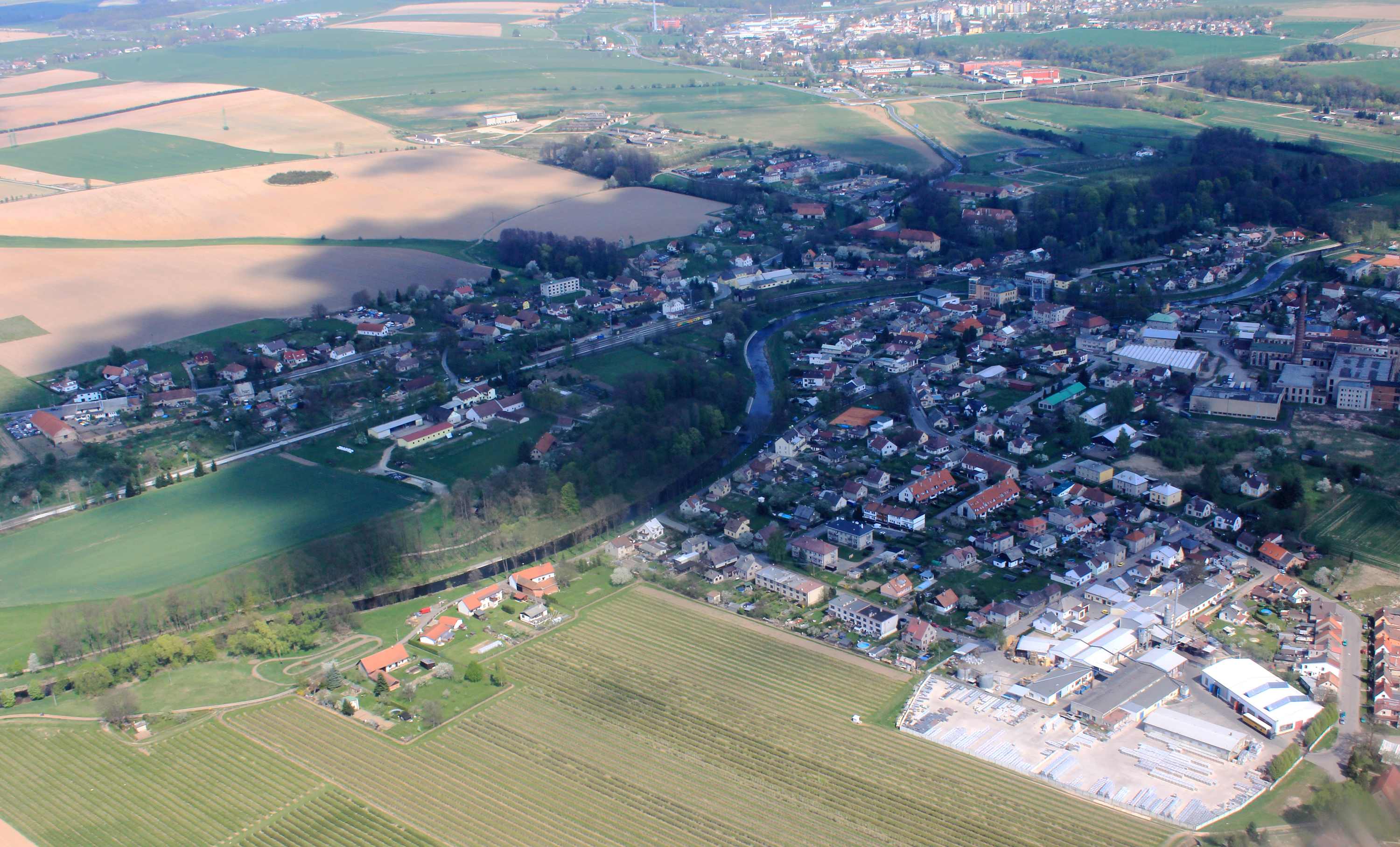 Small town Doudleby nad Orlicí from air, eastern Bohemia, Czech Republic